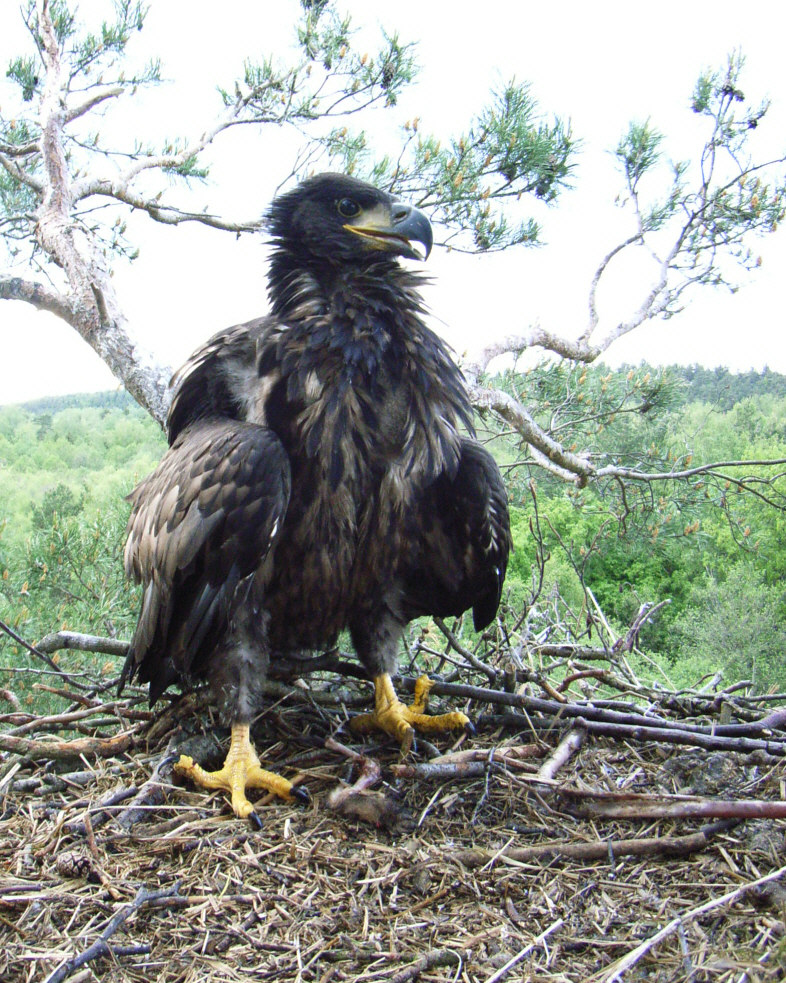 Picture taken by Rainer Altenkamp 2006